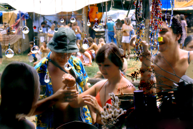 Image (photograph) taken by Official Nambassa Photographer and uploaded by User:Mombas 13:41, 4 May 2007 (UTC) Nambassa dot com Terms of Use: 1/ All users of this image are required to attribute this work to "Nambassa Trust and Peter Terry" and the URL: " " is to accompany all use. 2/ Attribution. You must attribute the work in the manner specified by the author or licensor. 3/ For any reuse or distribution, you must make clear to others the license terms of this work. Statement by Nambassa Trust and Peter Terry